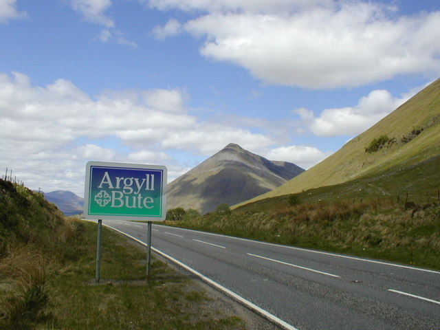 Argyll & Bute View on the A82 northwards.